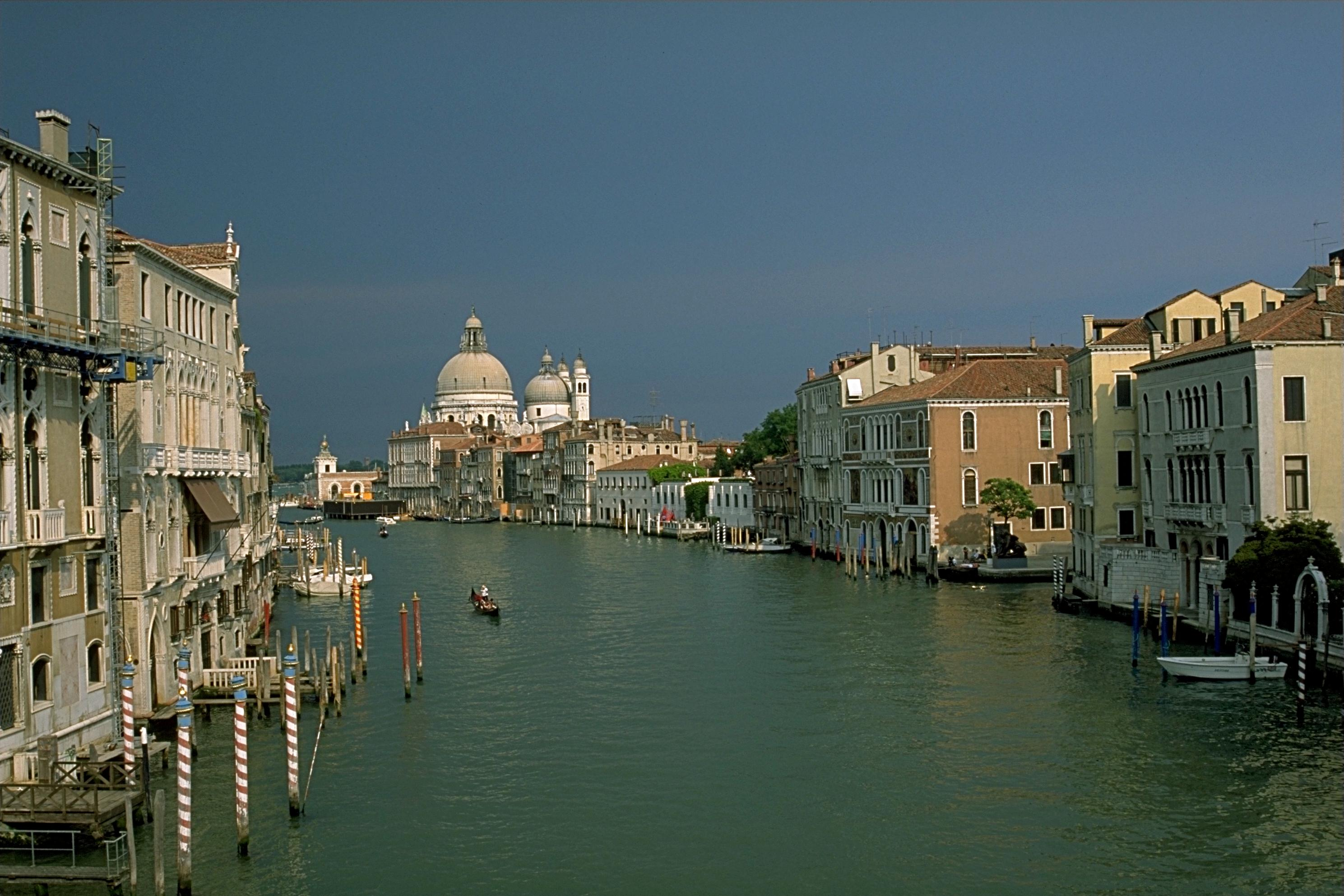 Canal Grande with view at S. Maria della Salute